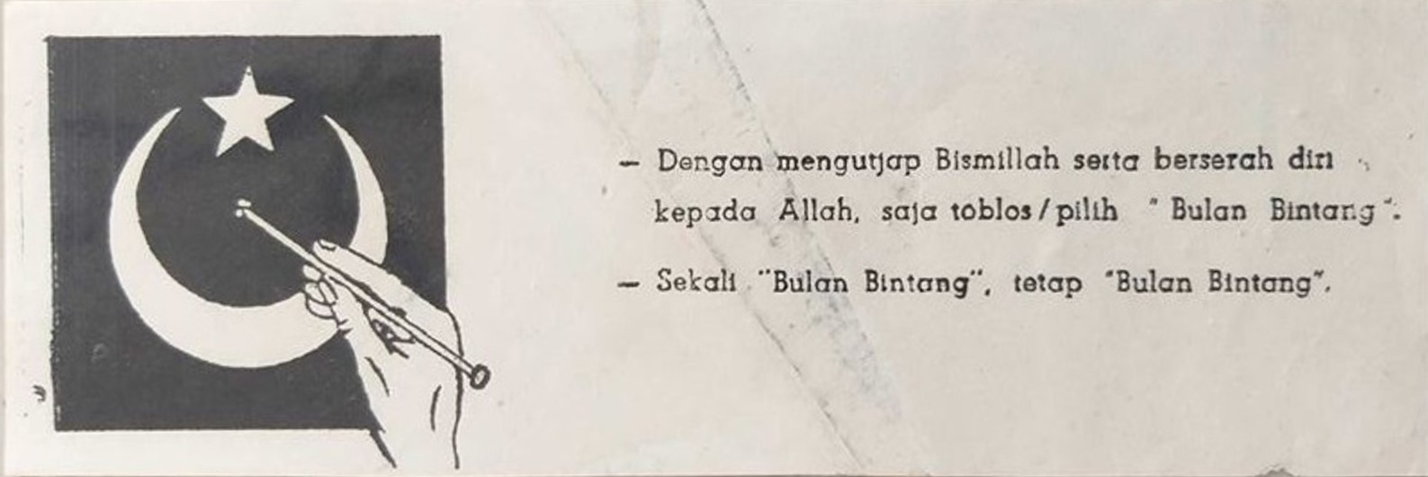 A pamphlet made by Masyumi for the 1955 election campaign.